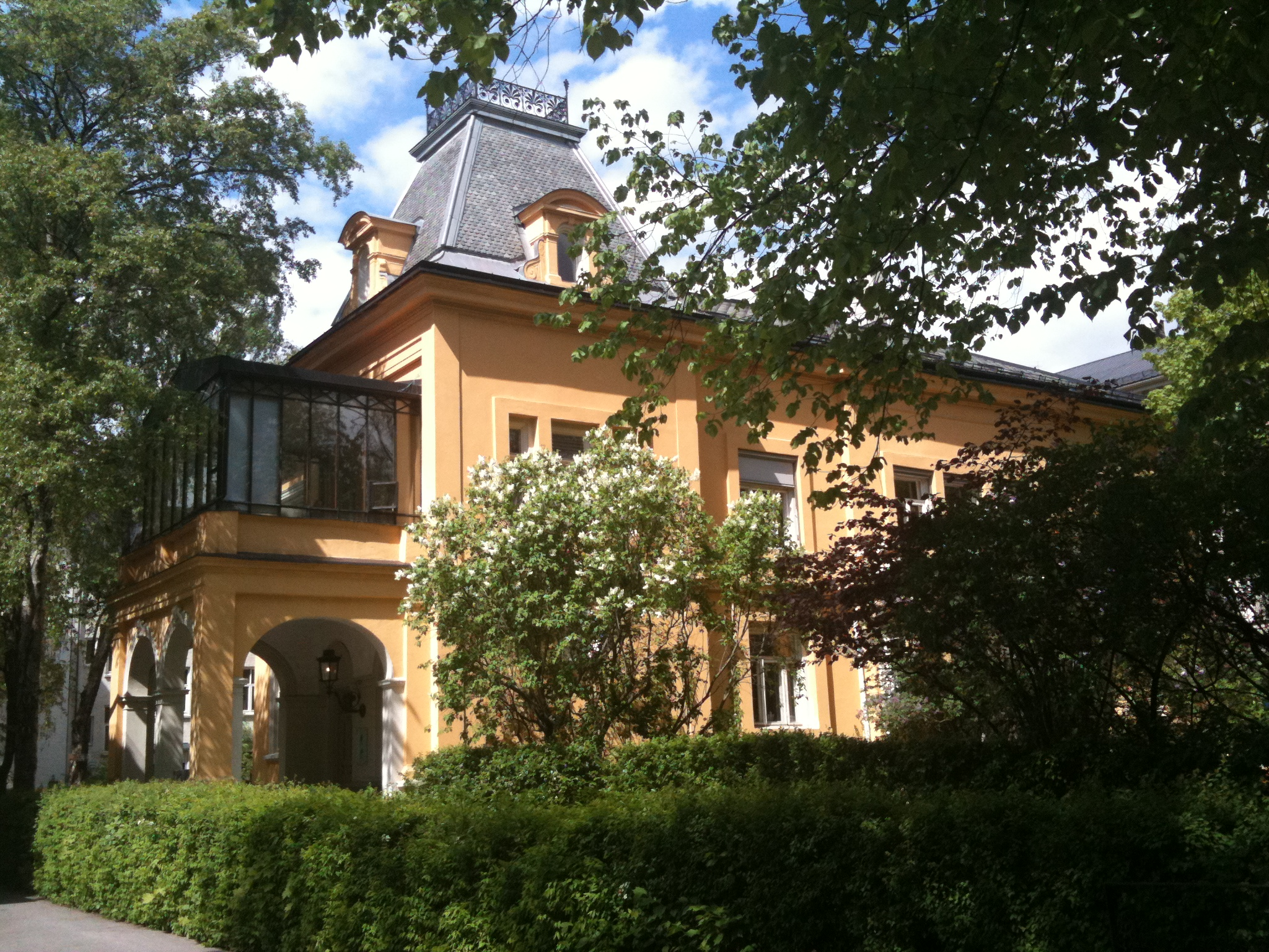 Fritt Ord headquarters, including the Norwegian Non-fiction Writers' Association (Norsk faglitteraer forfatterforening). Oslo.